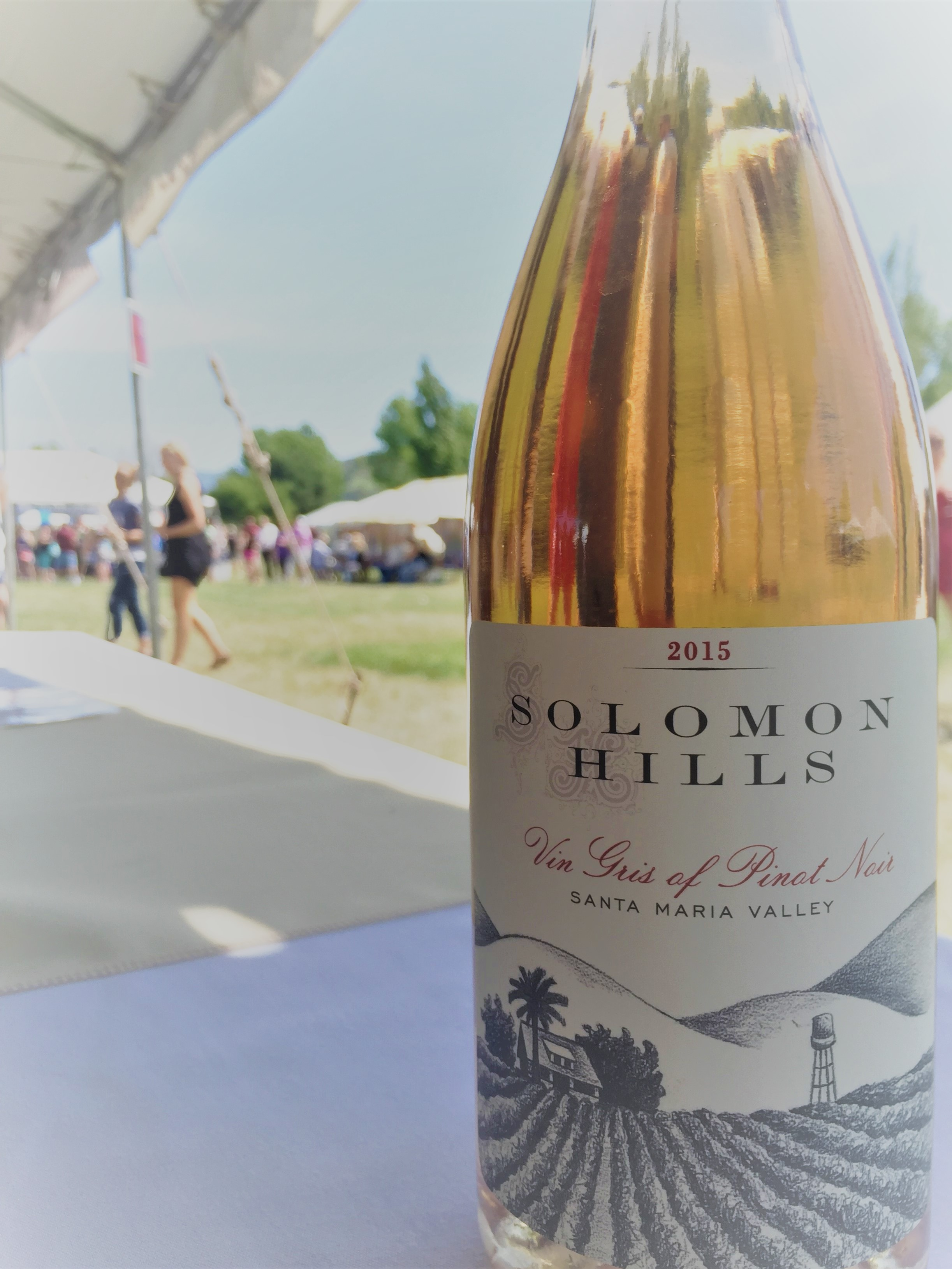 A Label of Solomon Hills Showing the Santa Maria Valley AVA, America's 3rd AVA